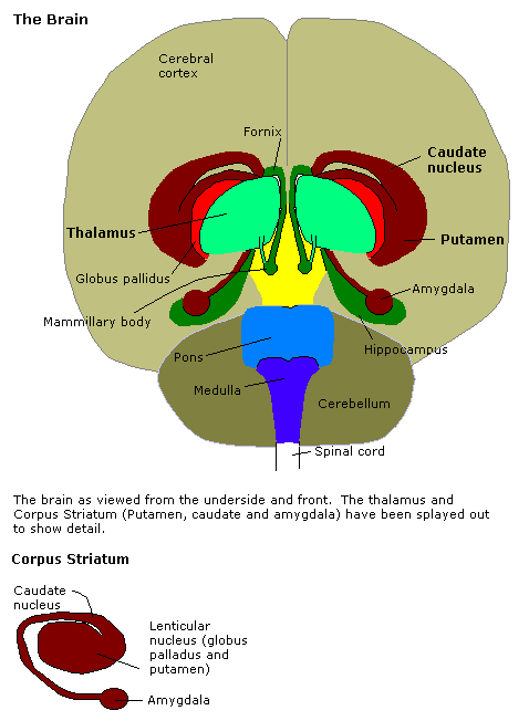 Diagram showing locations of several important parts of the human brain, as viewed from the front.